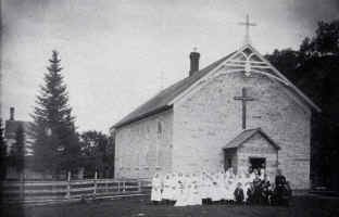 19th century view of the original St. Joseph's Church in Elkader, Iowa. The building still stands on the church property and has been converted into a parish hall. It, along with the present church, are listed on the National Register of Historic Places.